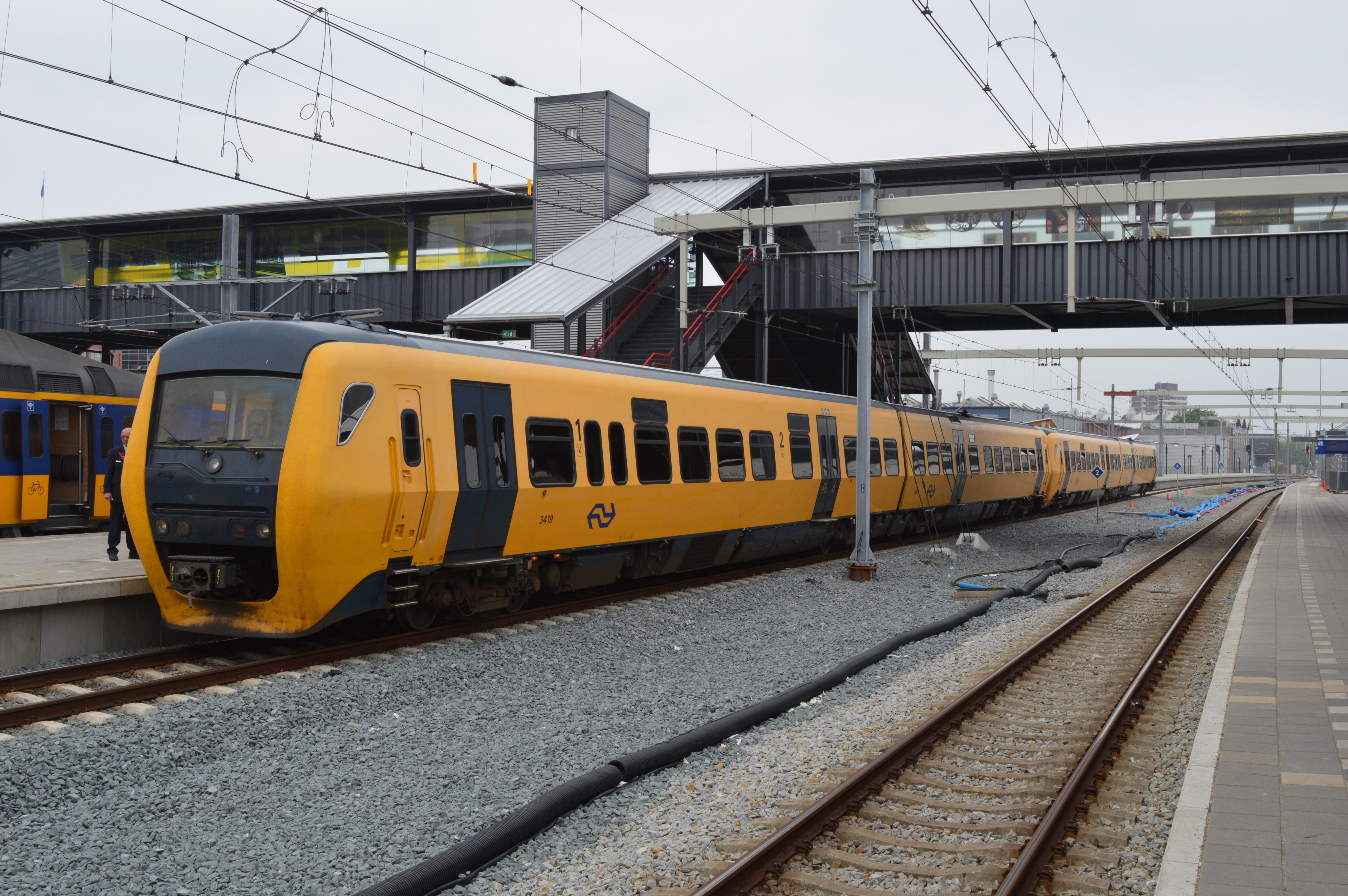 NS now only operate two non-electrified lines with the remainder handed over to private companies. For these, a fleet 53 DM90 (Class 3400) DMUs were built by Duewag, Talbot and SIG between 1996 and 1998. As a result of operational changes, several sets have been handed over to Syntus with only 21 sets now on the books of NS. Seen at Zwolle on 19 May 2013, sets 3419 (closest to the camera) with 3415 behind with one furthest away not noted. Train 7913, 10:49 Zwolle to Enschede.